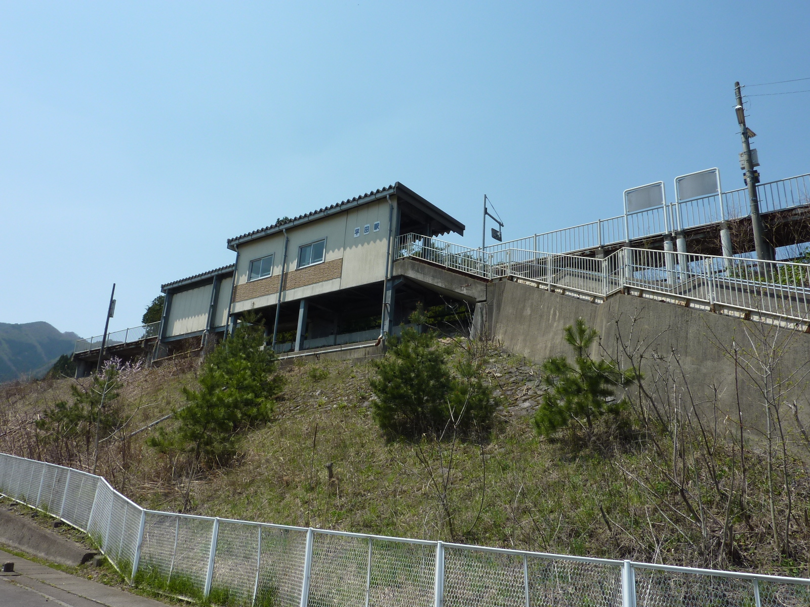 Heita Station on Sanriku Railway Minami Riasu Line, in Heita, Kamaishi City, Iwate Prefecture, Japan)